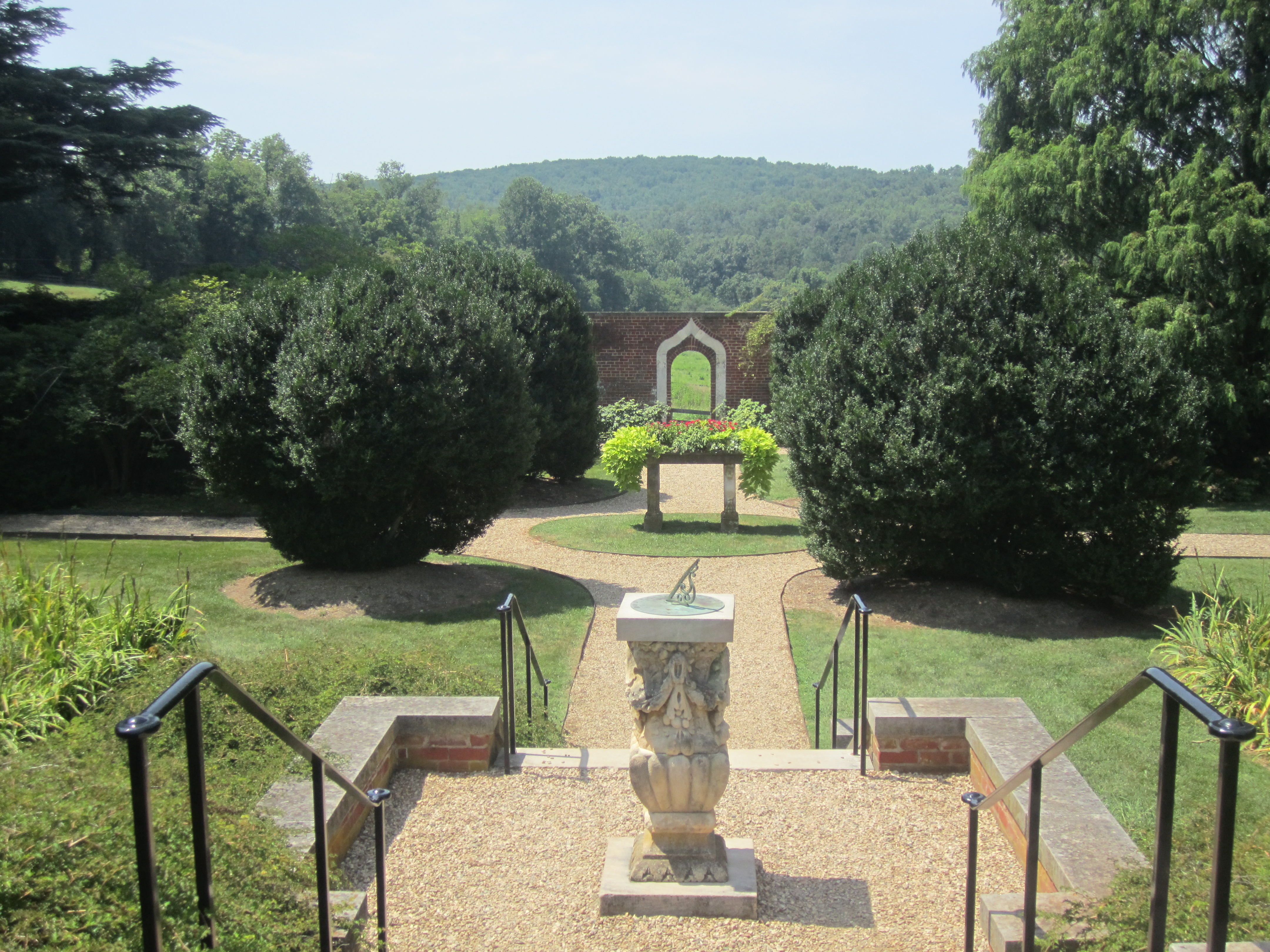 I took photo with Canon camera of entrances to the gardens at Montpelier in Orange, VA.